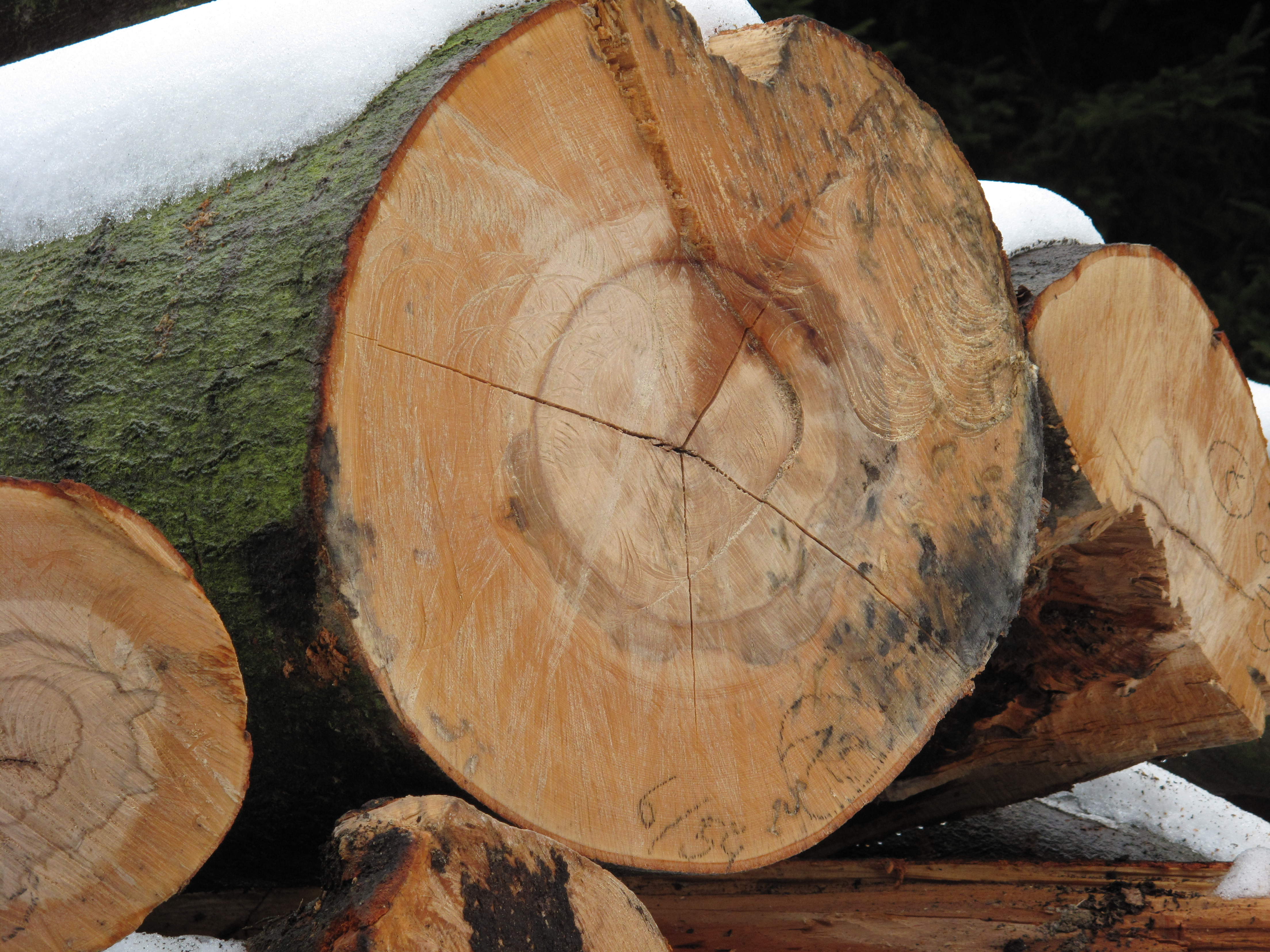 Beech growth rings in Hornopožárský Forest, Czech Republic.